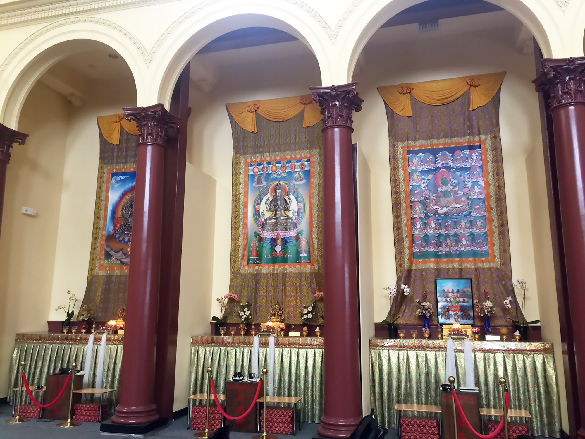 Mandala of Ten, Macang Monastery, San Francisco